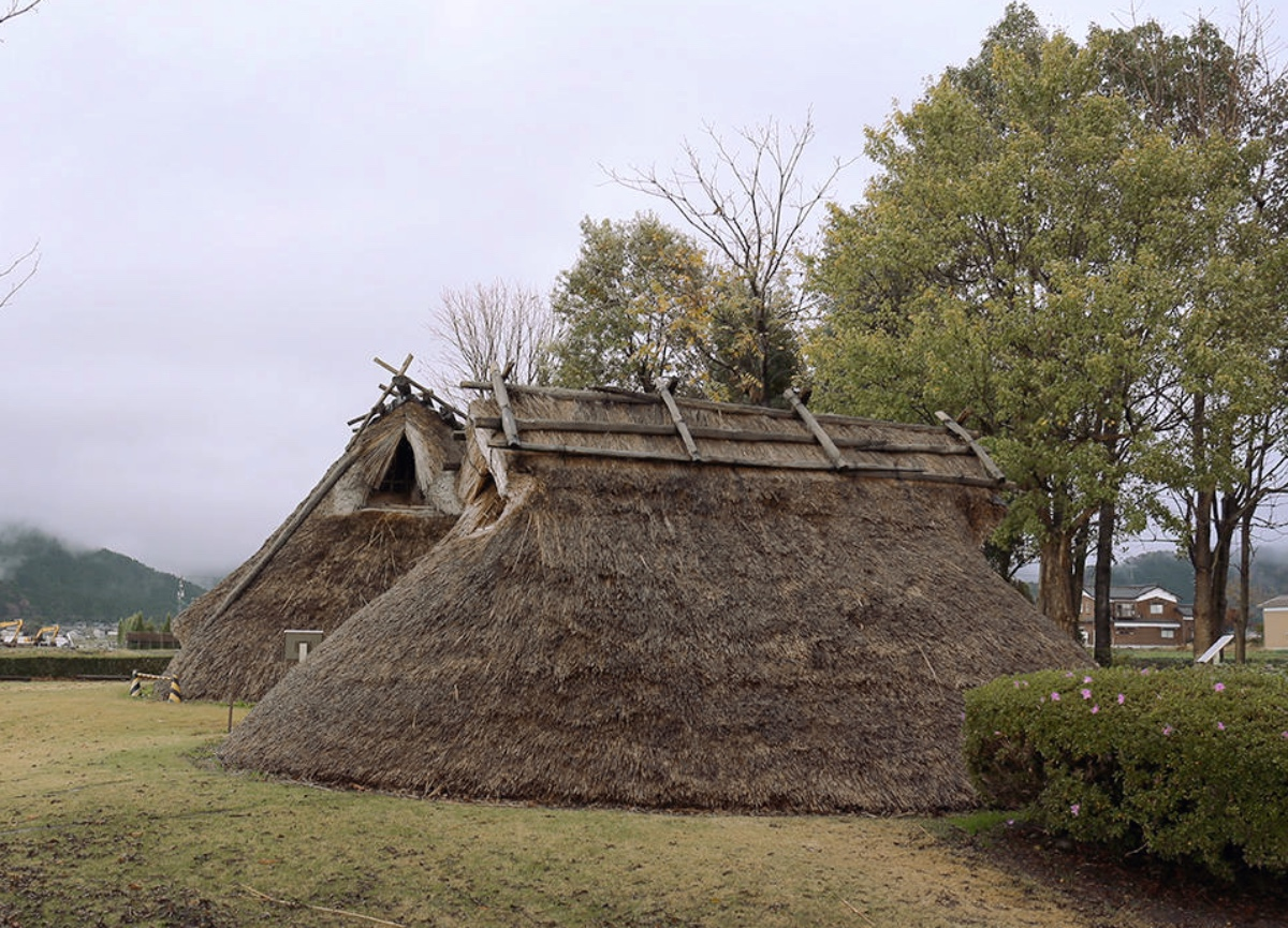 A reconstructed pit dwelling at Fudodo site, Asahi, Toyama , Japan